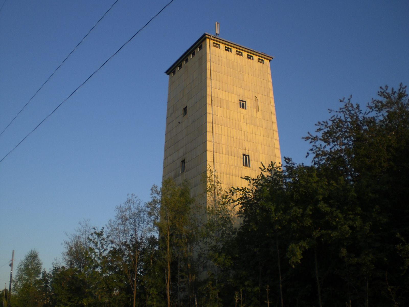 Water tower of former workshop of Deutsche Bahn at Munich, Germany